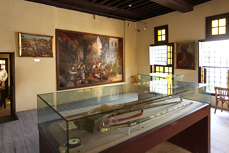 Exhibition room, Arab Killy house, Rashid, Egypt